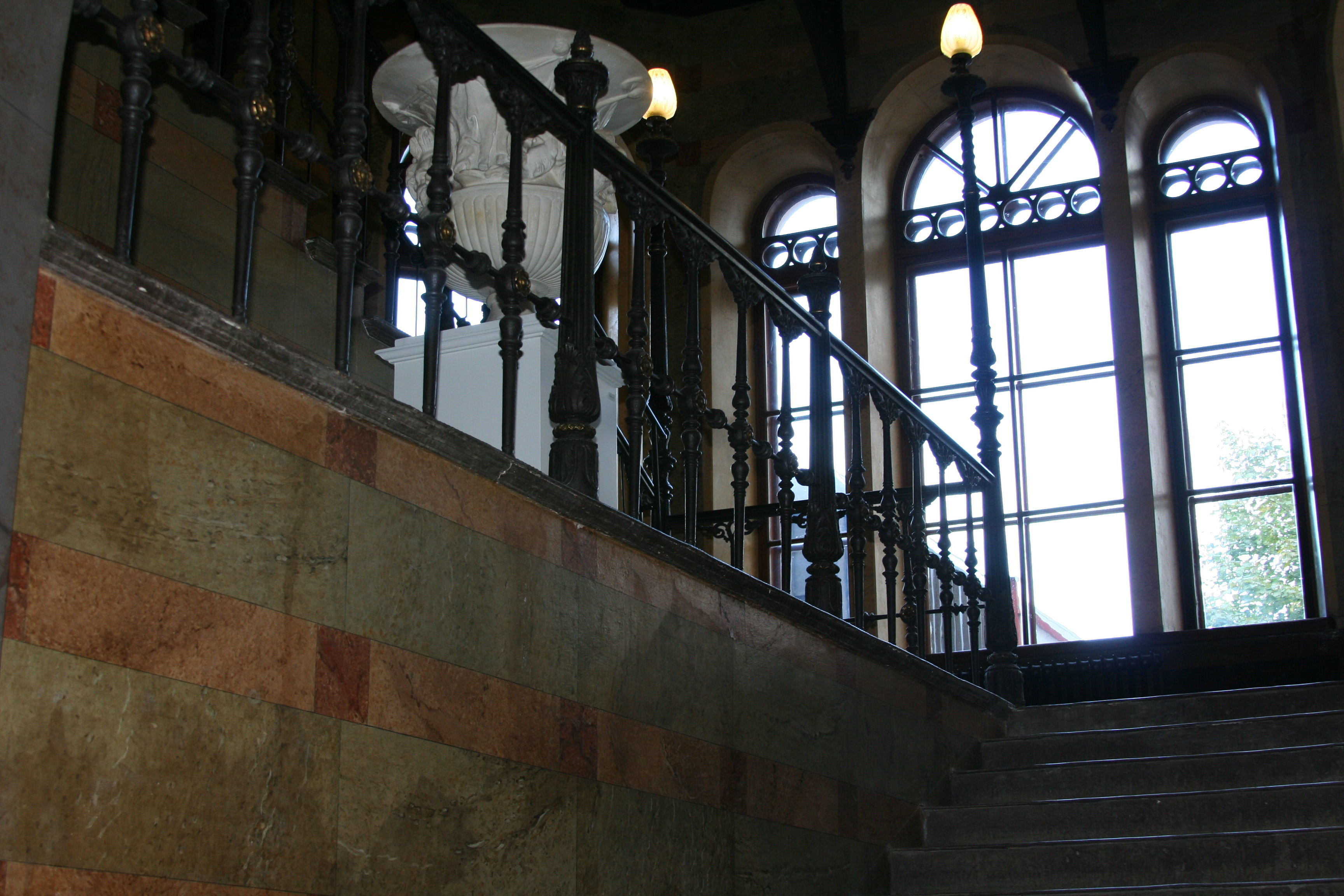 Helsinki University Museum, Arppeanum building, Helsinki, Finland. Main staircase is made of steel and cast iron. Architect Carl Albert Edelfelt, the building was completed in 1869.